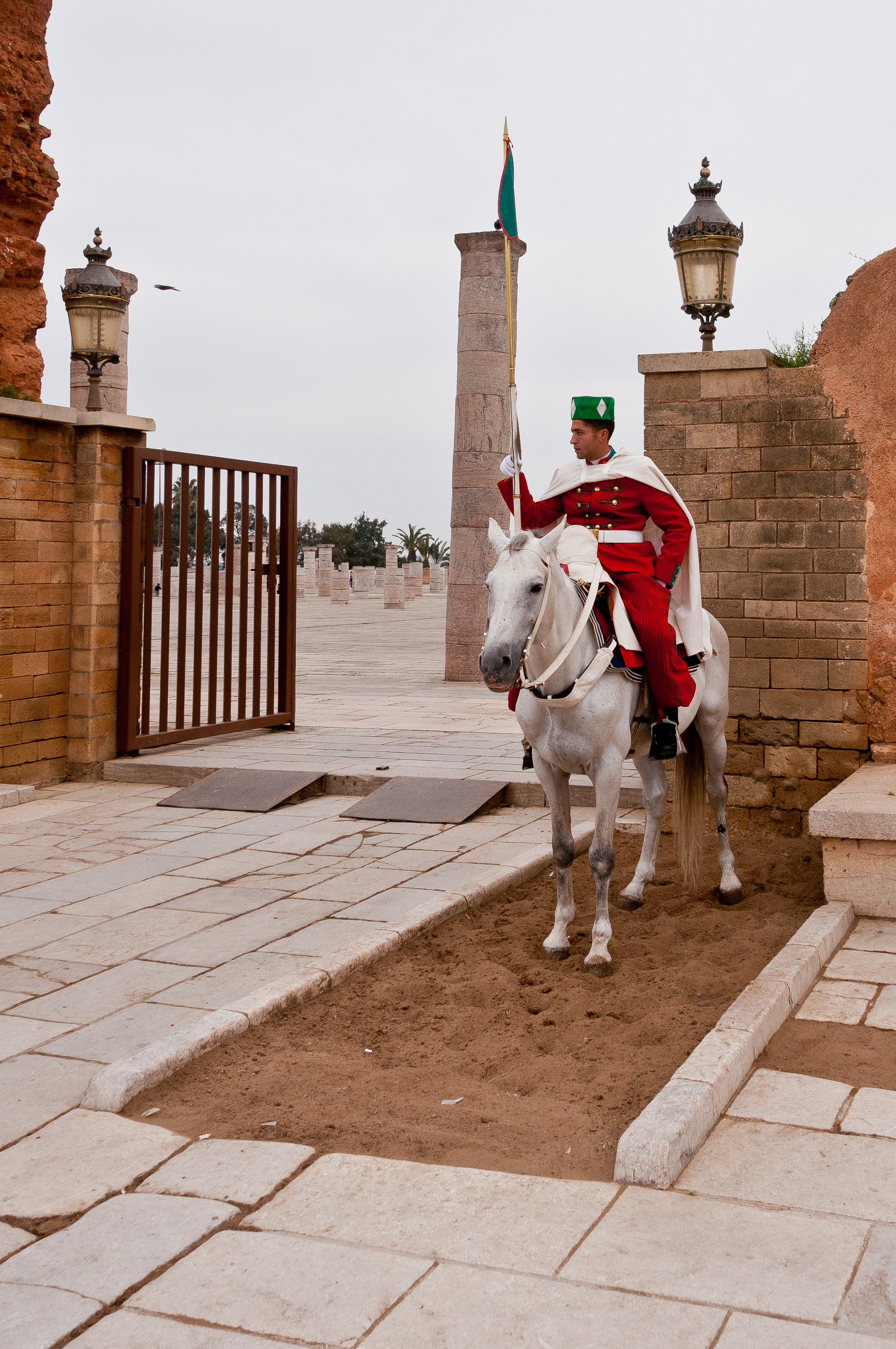 One of the Royal Moroccan Guards, formerly known as the Black Guards, at the Mausoleum of Mohammed V in Rabat, Morocco. The Mausoleum of Mohammed V is located on the opposite side of the Hassan Tower on the Yacoub al-Mansour esplanade in Rabat, Morocco. It contains the tombs of the Moroccan king and his two sons, late King Hassan II and Prince Abdallah. The building is considered a masterpiece of modern Alaouite dynasty architecture, with its white silhouette, topped by a typical green tiled roof. Its construction was completed in 1971. Hassan II was buried there following his death in 1999. - Wikipedia